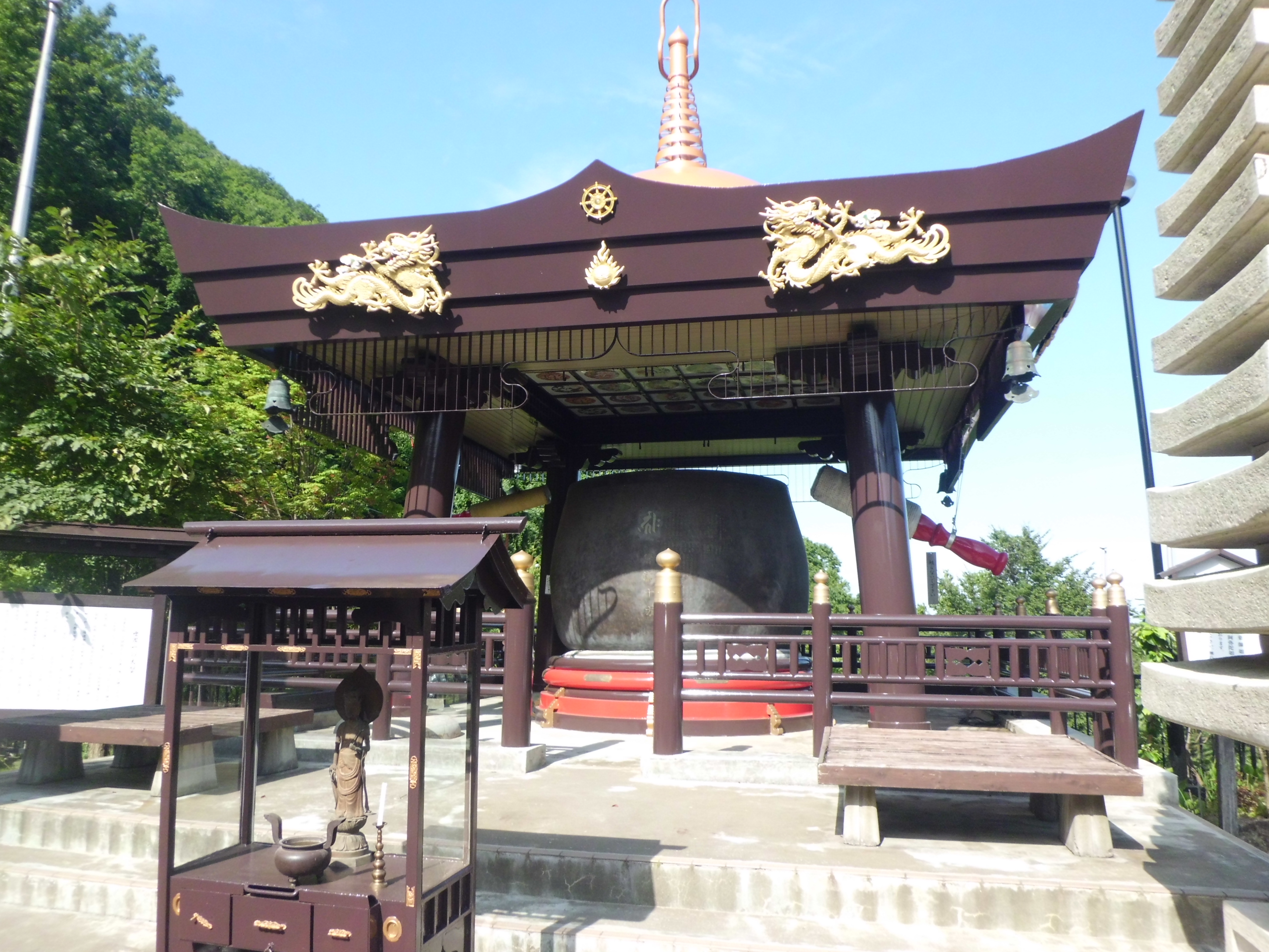 Great Bowl of Daijoin